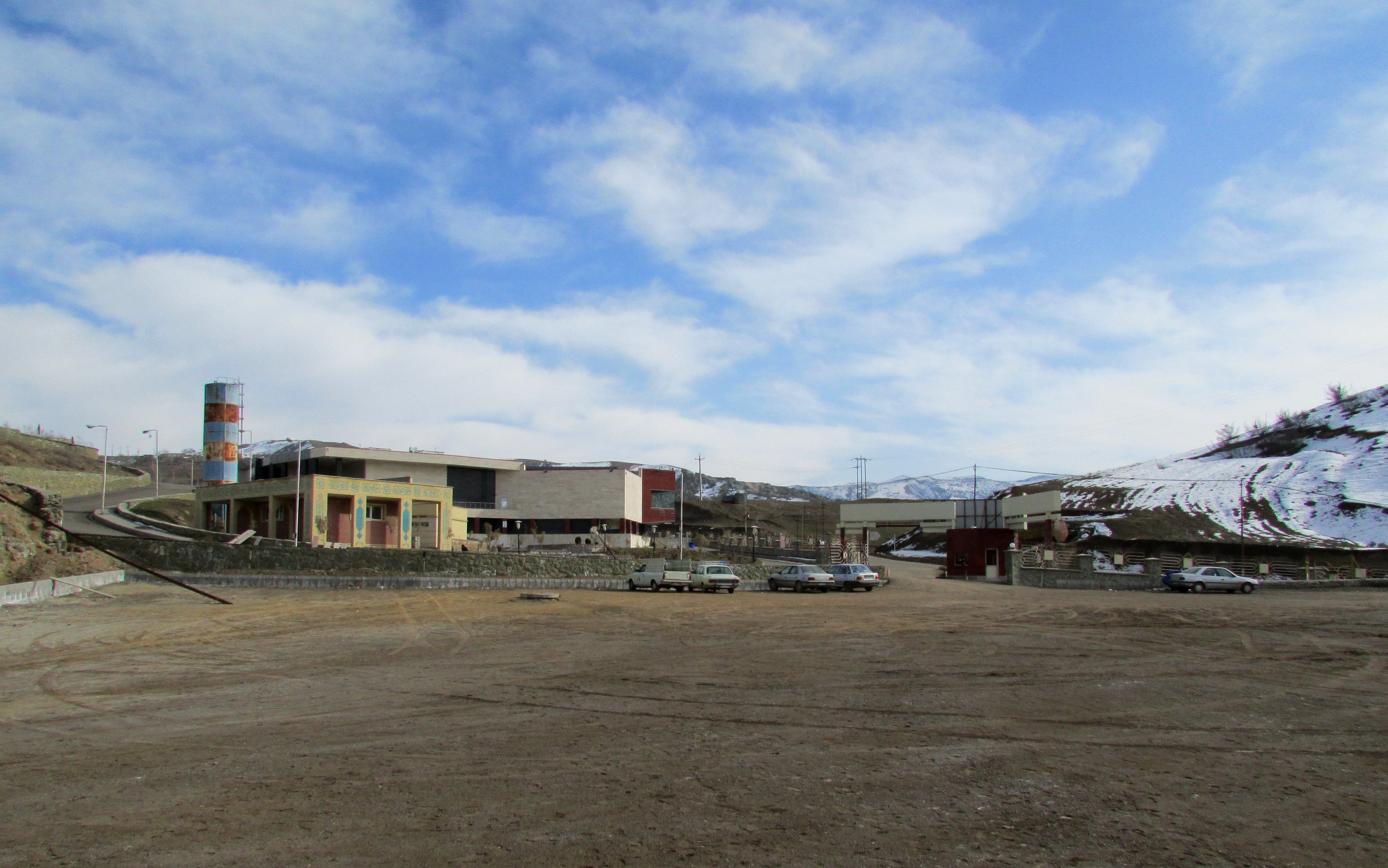 A photo showing the Hot spring therapeutic facility in Motaalleq village.